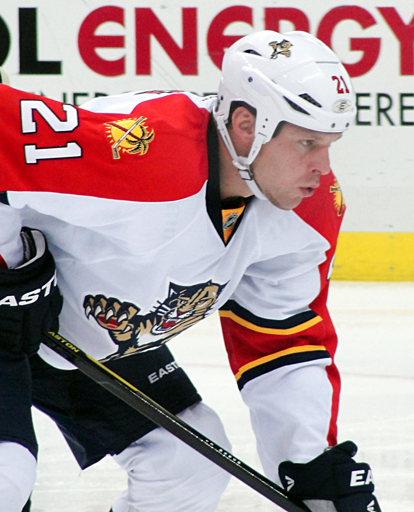 Florida Panthers forward Krystofer Barch skates against the Pittsburgh Penguins, March 9, 2012 at Consol Energy Center in Pittsburgh, PA.